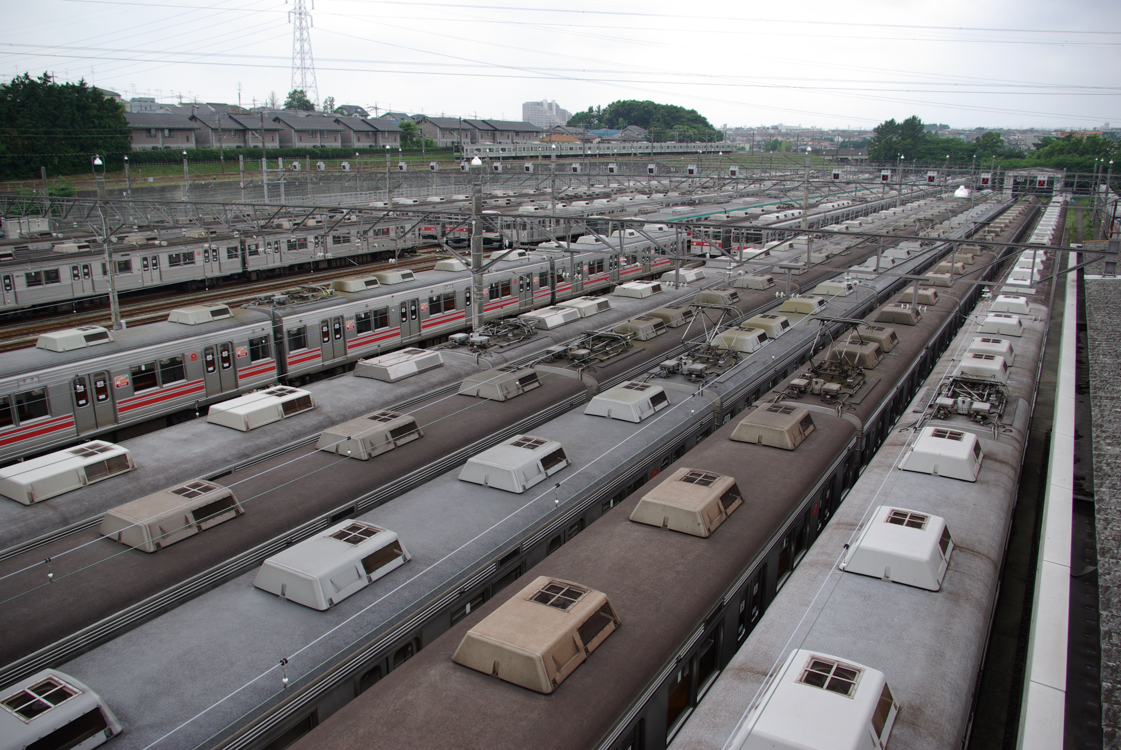 Custody lines at Nagatsuta Inspection Depot